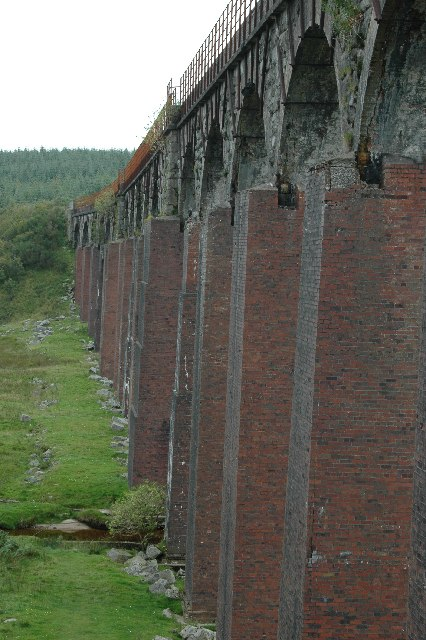 Big Water of Fleet Viaduct. From the north side; this viaduct is on the closed Portpatrick & Wigtownshire Joint Railway and can now, at last(!), be walked across. It was lucky to survive, a nearby viaduct was blown up by the army as a training exercise. Will the Scottish Parliament bring the railway back to the Dumfries - Stranraer line?